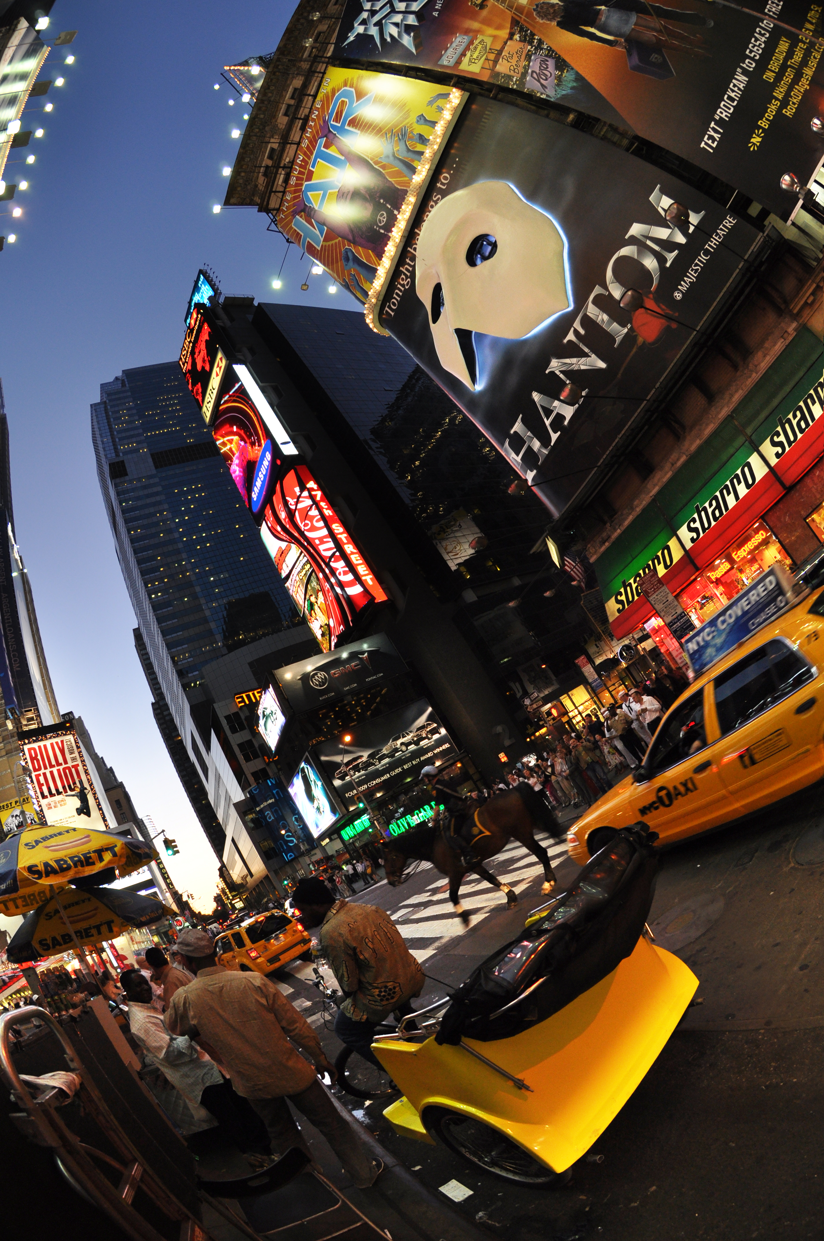 Time Square, Manhattan, NYC